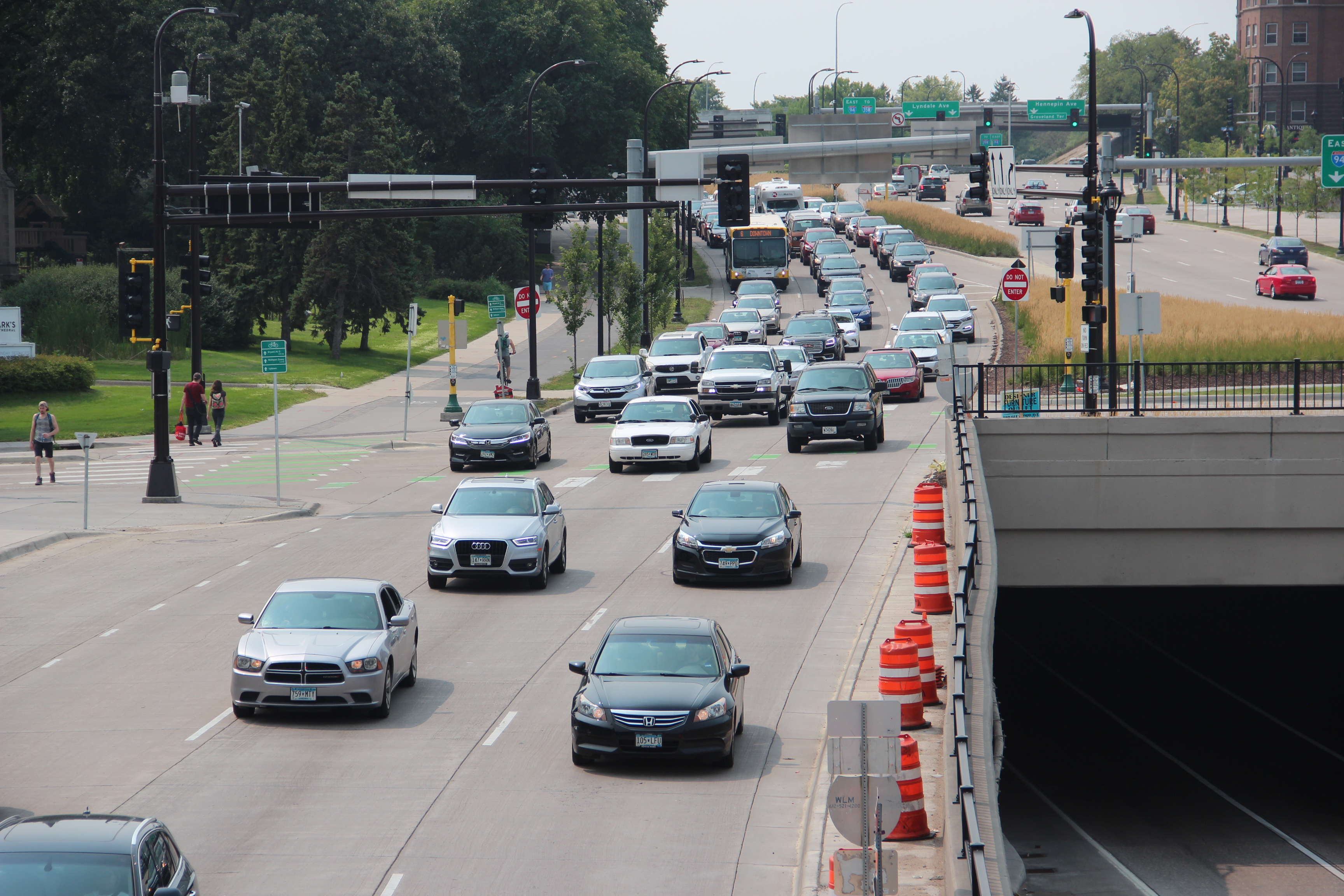 Lyndale Avenue from Irene Hixon Whitney Bridge